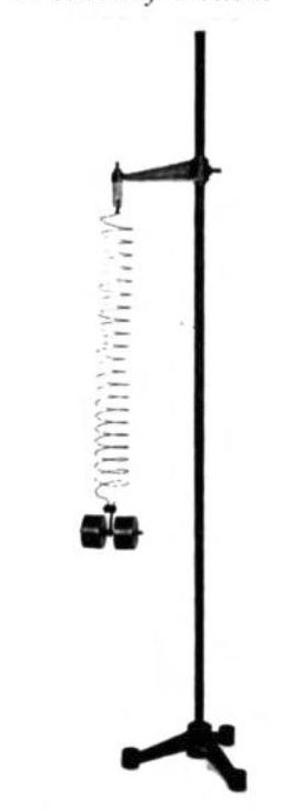 Photo of a Wilberforce pendulum, a coupled mechanical oscillator consisting of a weight suspended from a helical spring that is free to both bob up and down and rotate back and forth about its vertical axis with torsional vibrations. It is mounted on a stand for use in physics demonstrations. The weight consists of two adjustable masses mounted on a horizontal threaded rod that can be screwed in or out to adjust the torsional vibration period of the weight.